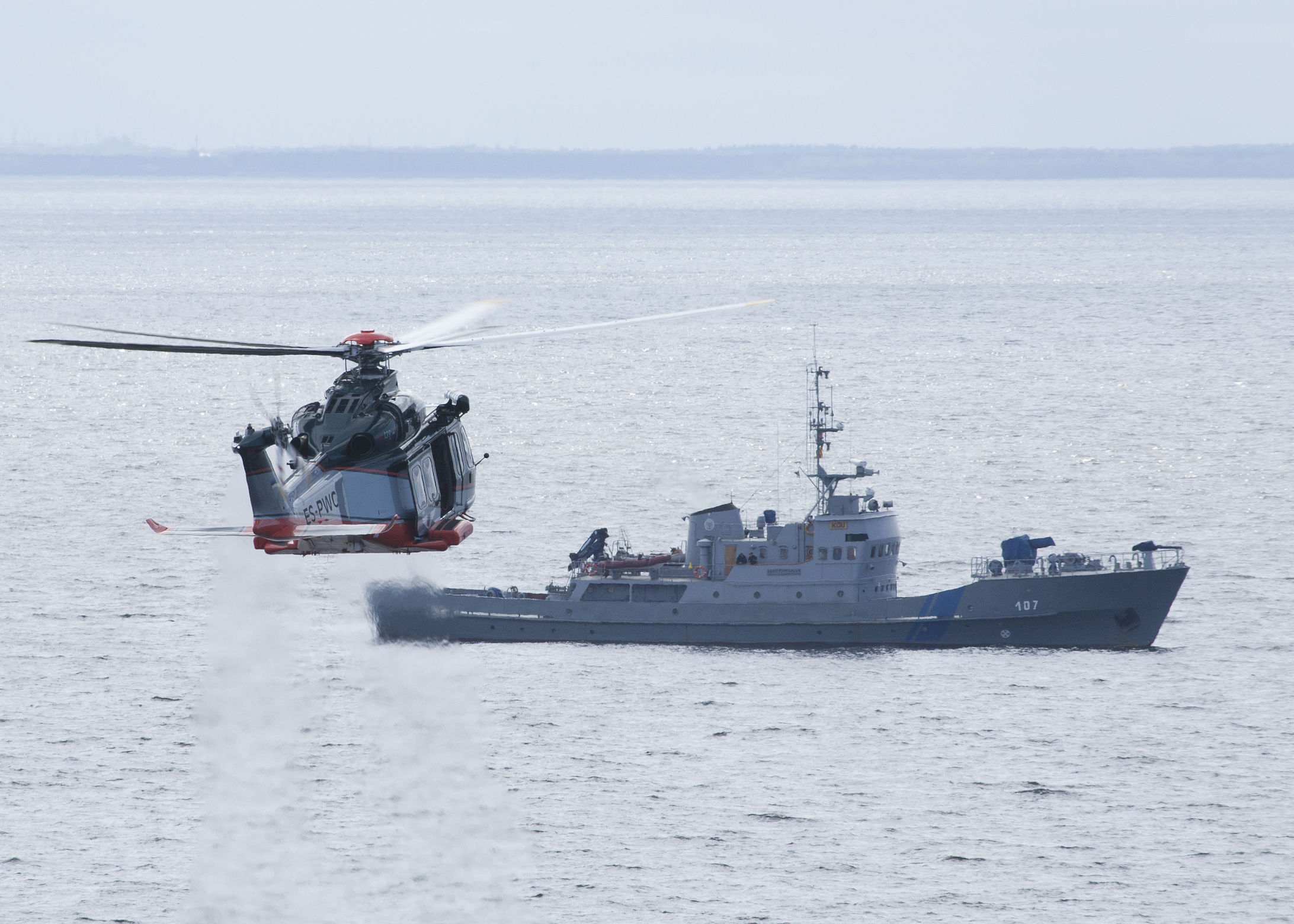 Training exercise Bold Mercy.